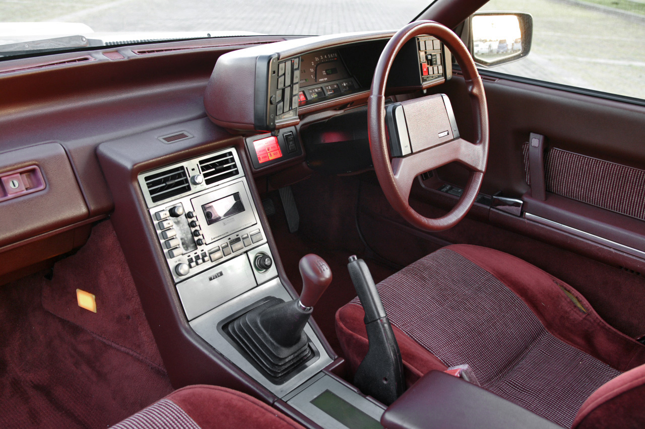 Mazda Cosmo, third generation ( HB ).